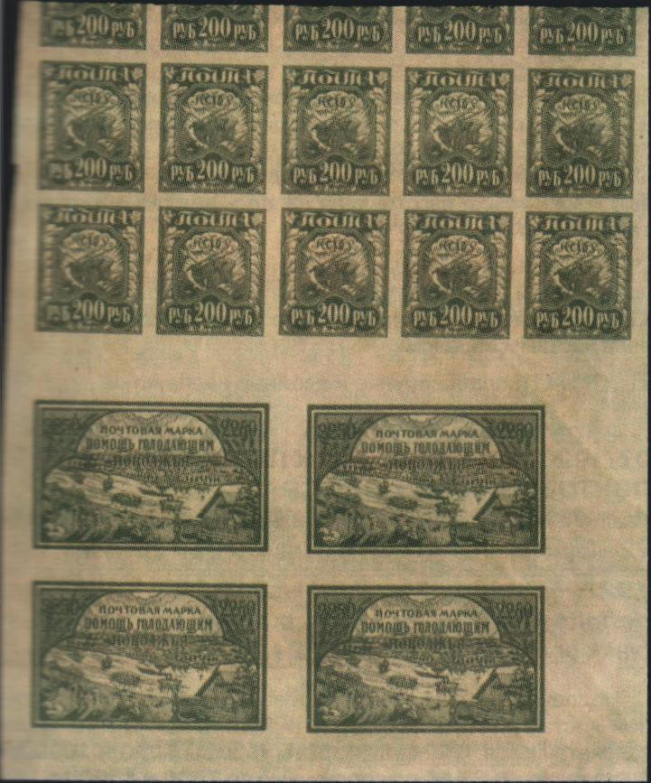 Printing sheet part of 2 different stamps: top main (CPA #30, Mi #166; Sc #B16) and bottom in addition (CPA #9, Mi #157; Sc #182)